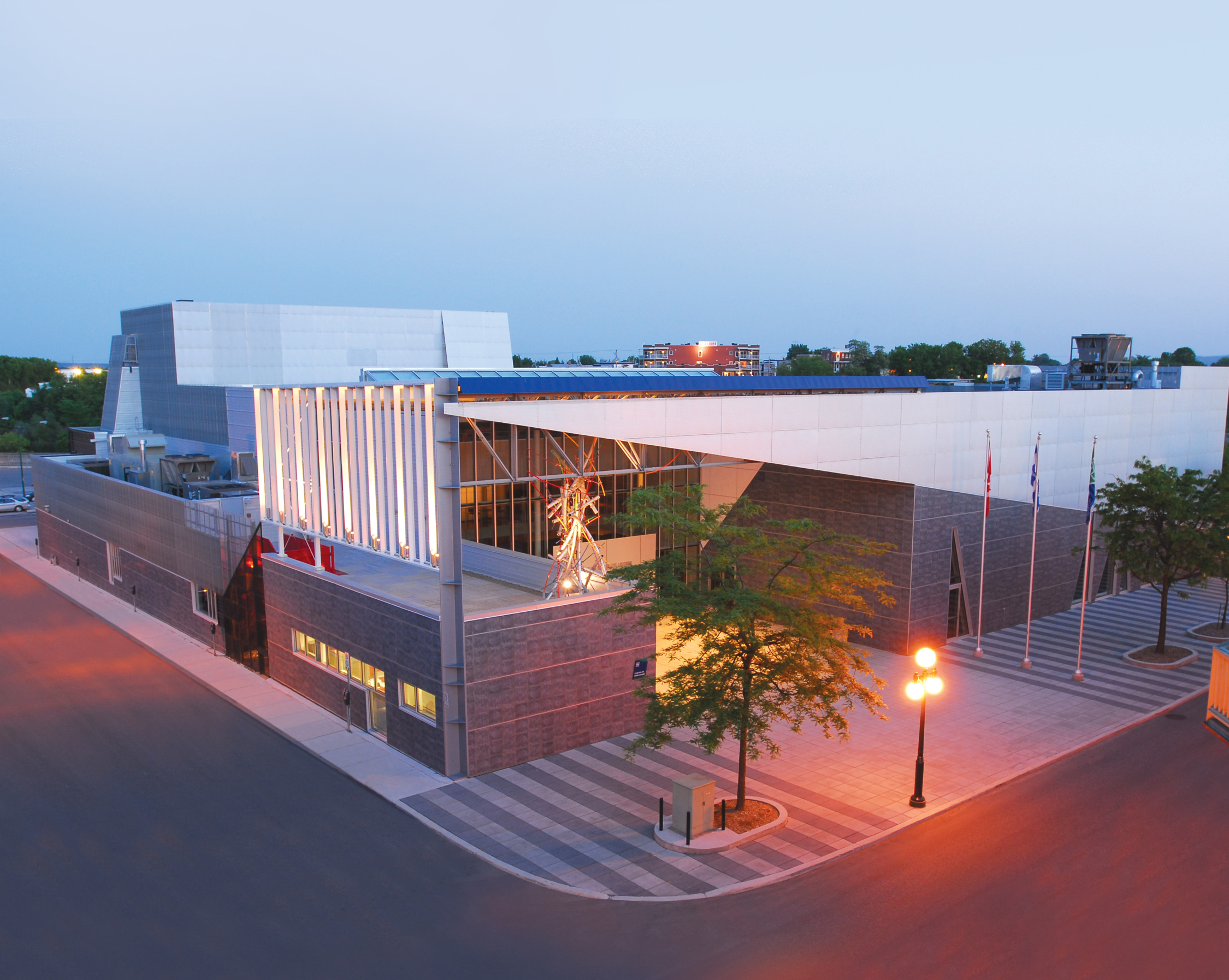 The main Entrance of the Centre des arts Juliette-Lassonde.